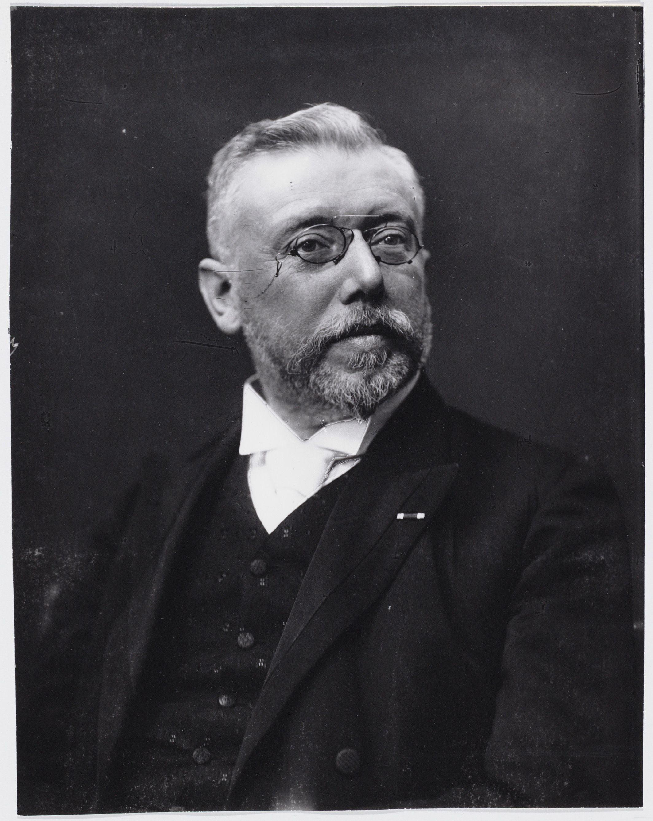 Photograph of Anton Averkamp (1861-1934) by Jacob Merkelbach (1877-1942)